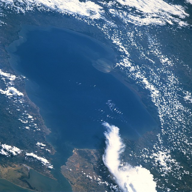 Lake Maracaibo, Venezuela, looking southward, taken from the Space Shuttle Challenger (Spacelab-2 mission) at an altitude of 169 nautical miles (313 km), for further details see source link below.